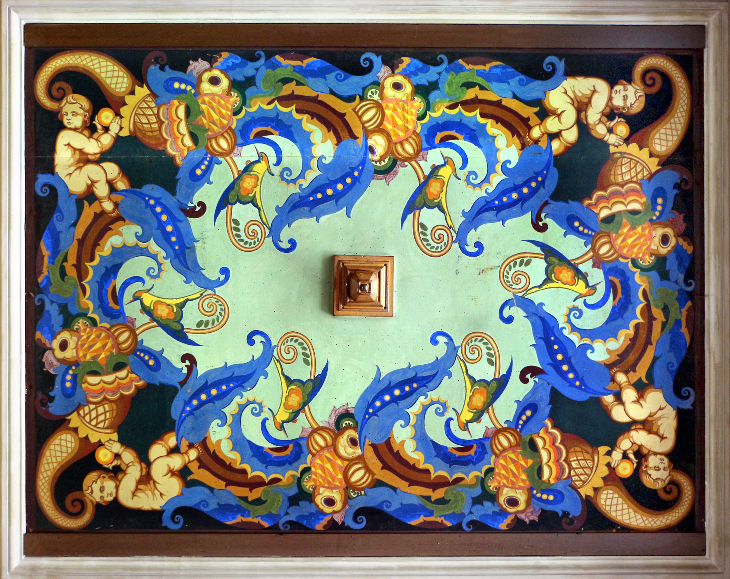 Viareggio